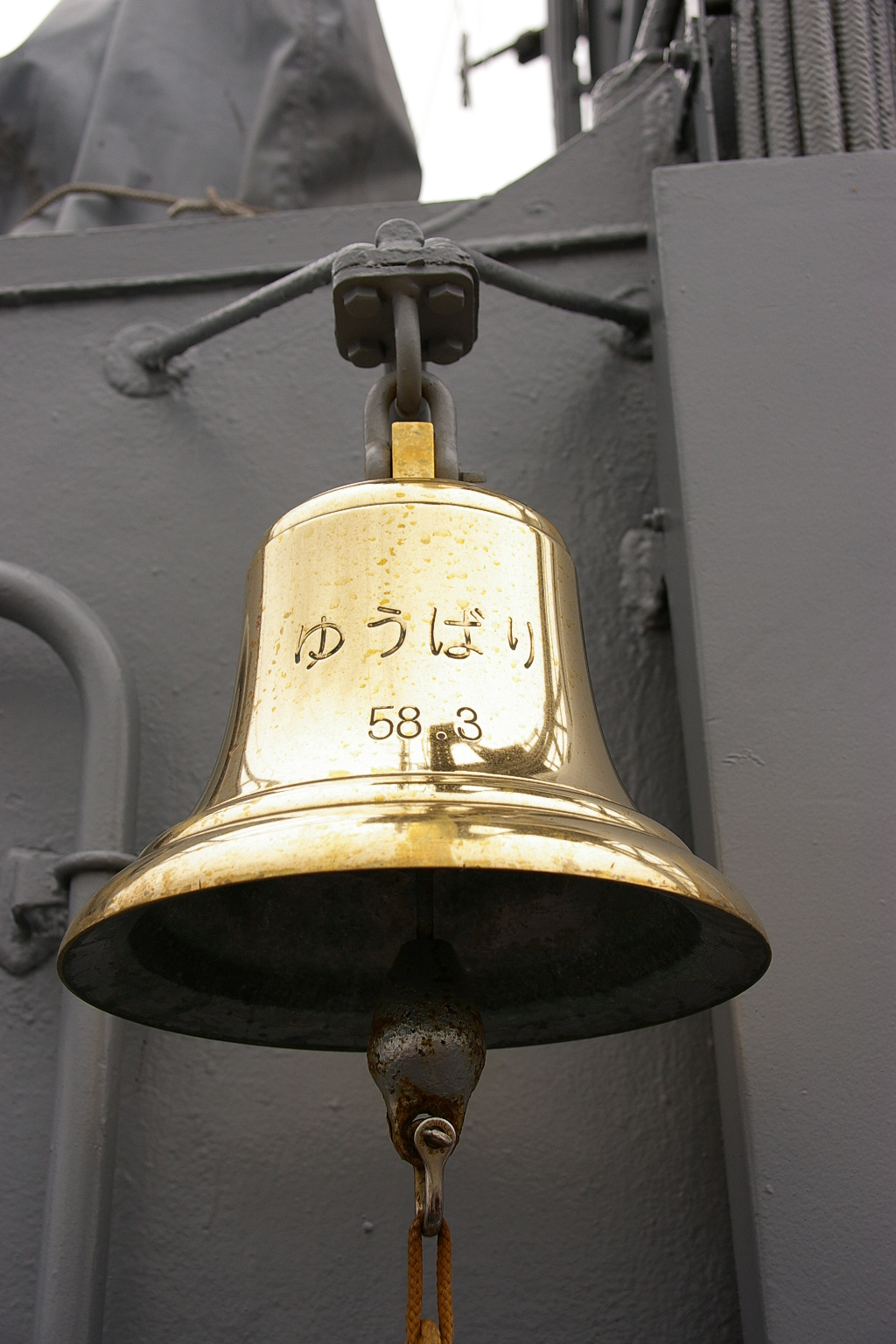 Signal bell on board JS Yūbari (DE-227).